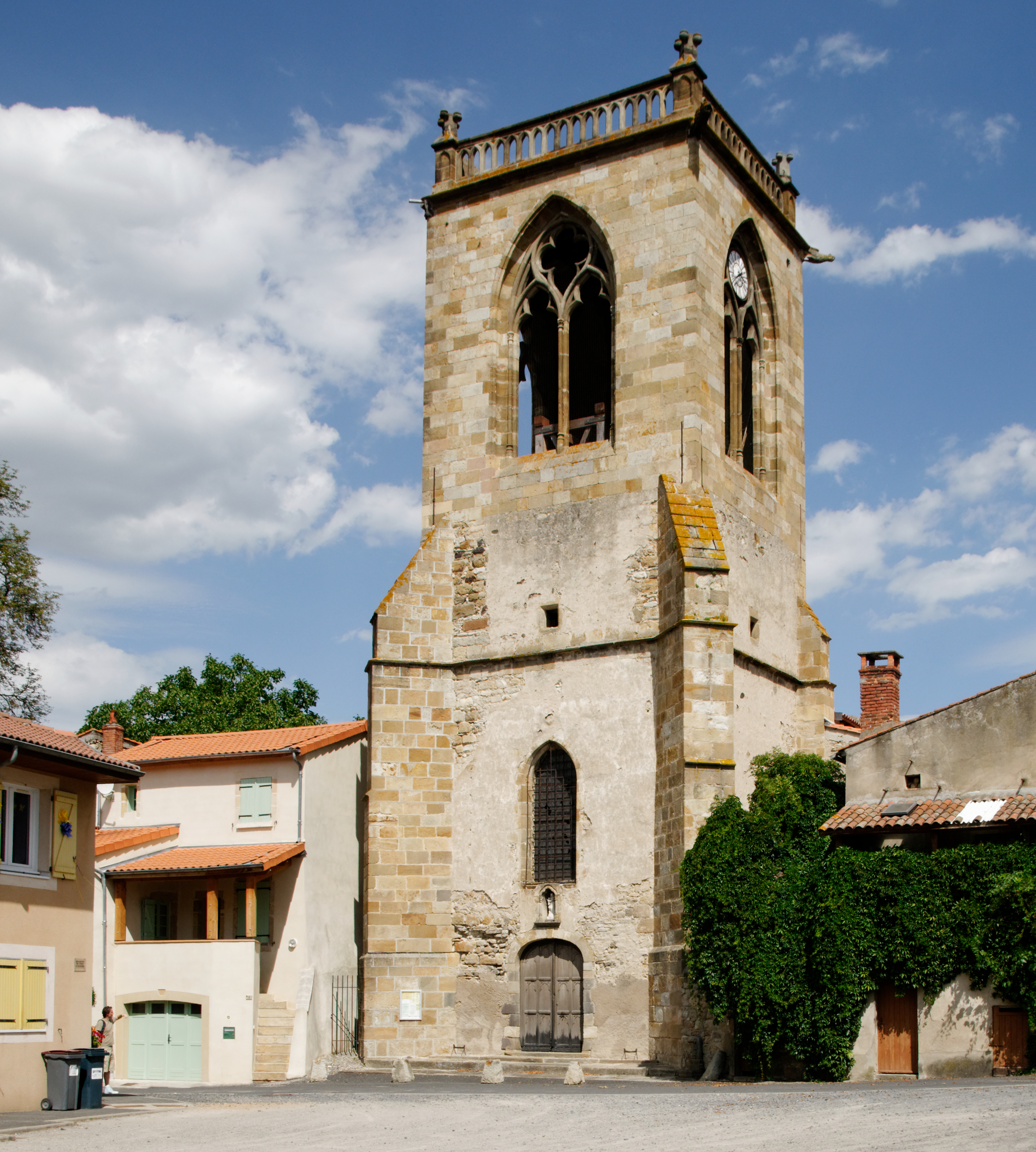 Church Our Lady of Authezat (14th century), Puy-de-Dôme, Auvergne, France.